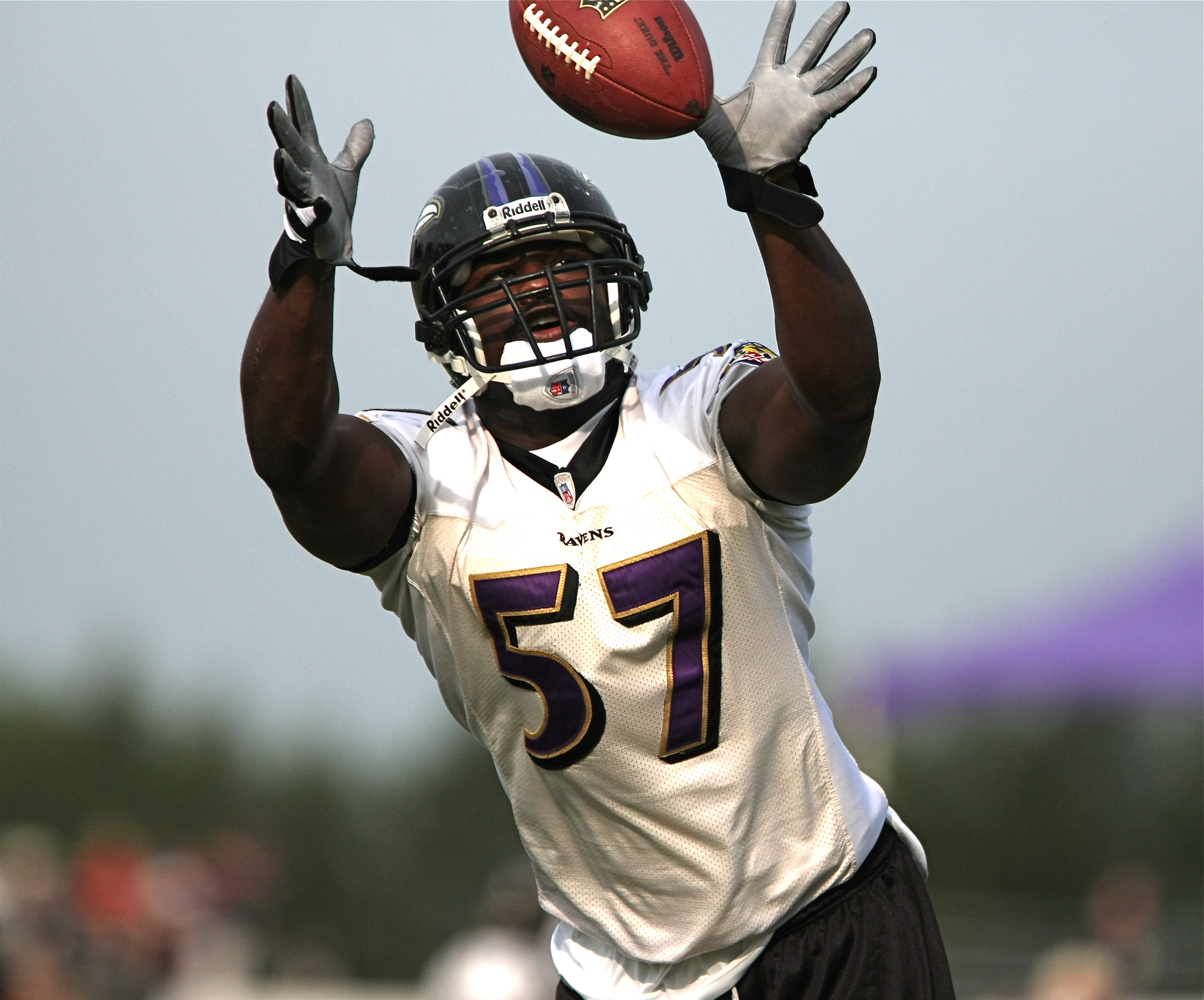 Bart Scott as a member of the Ravens.